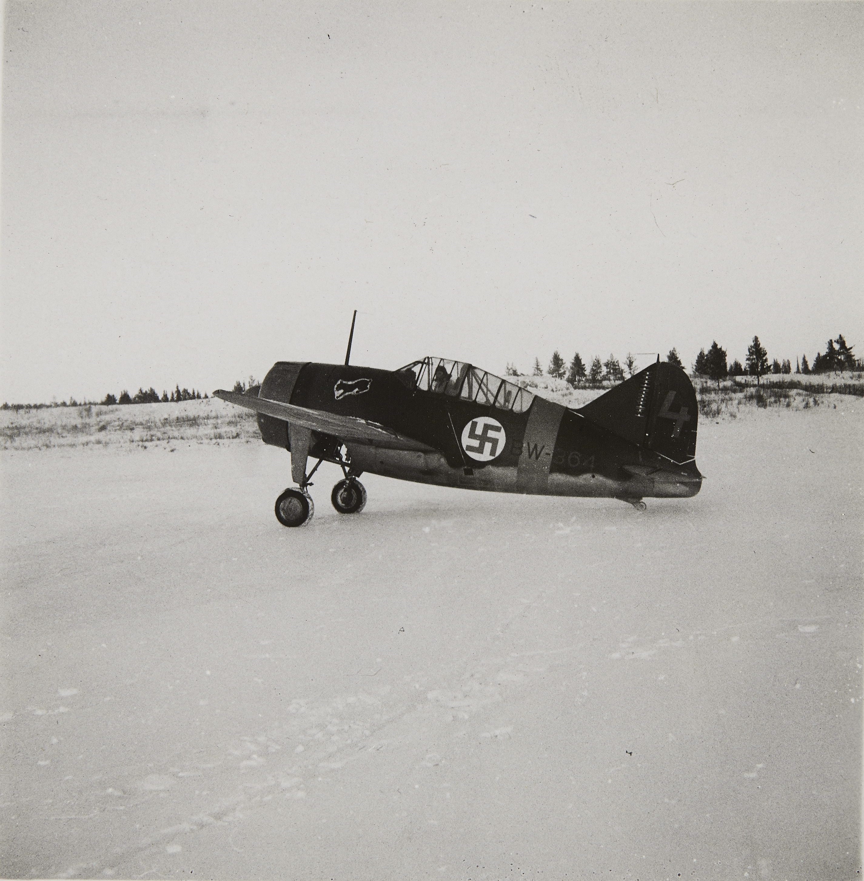 Ilmari Juutilainen and his Bewster B-239 fighter (BW-364) in Continuation War at Tiiksjärvi airfield during the winter of 1942–1943